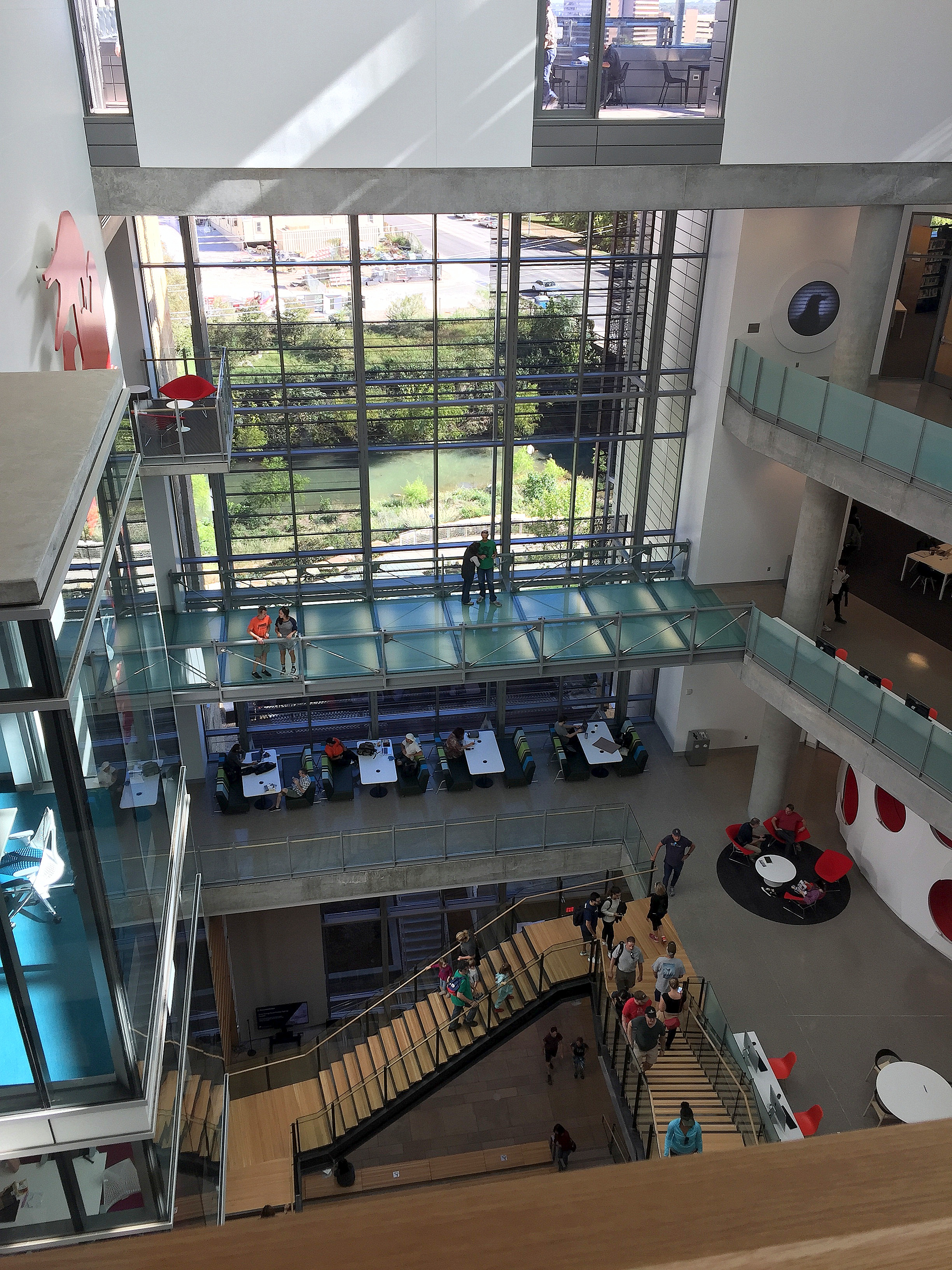 New Austin, Texas public library opened on October 28th 2017 and this shows the interior from the 6th floor.